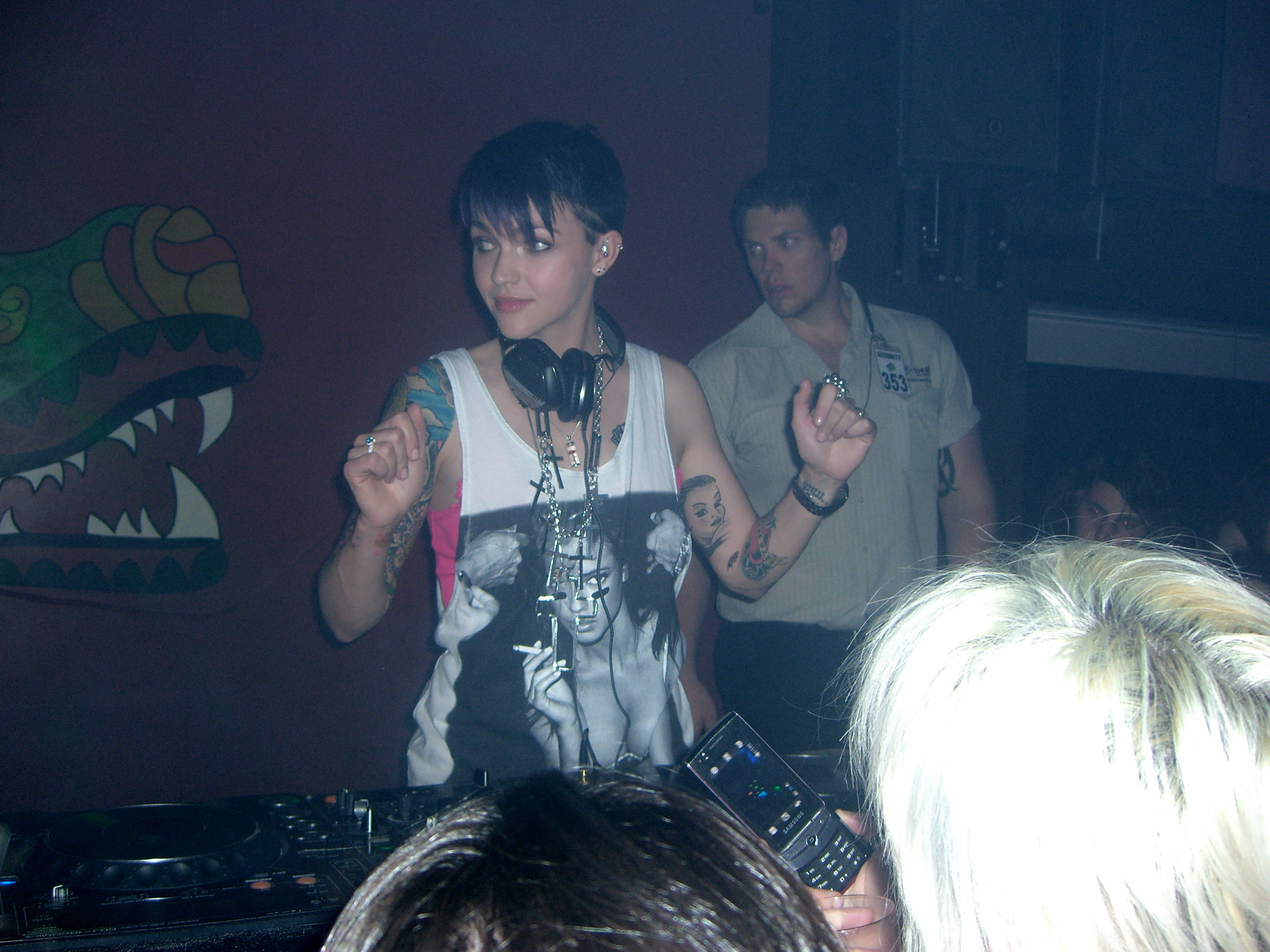 Ruby Rose at Rumjungle